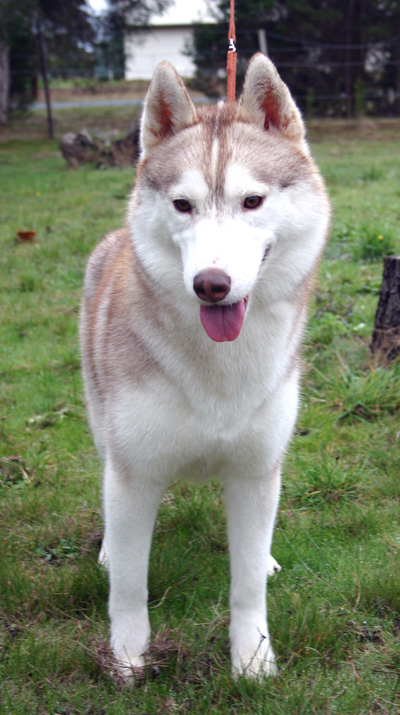 A light red female Siberian Husky